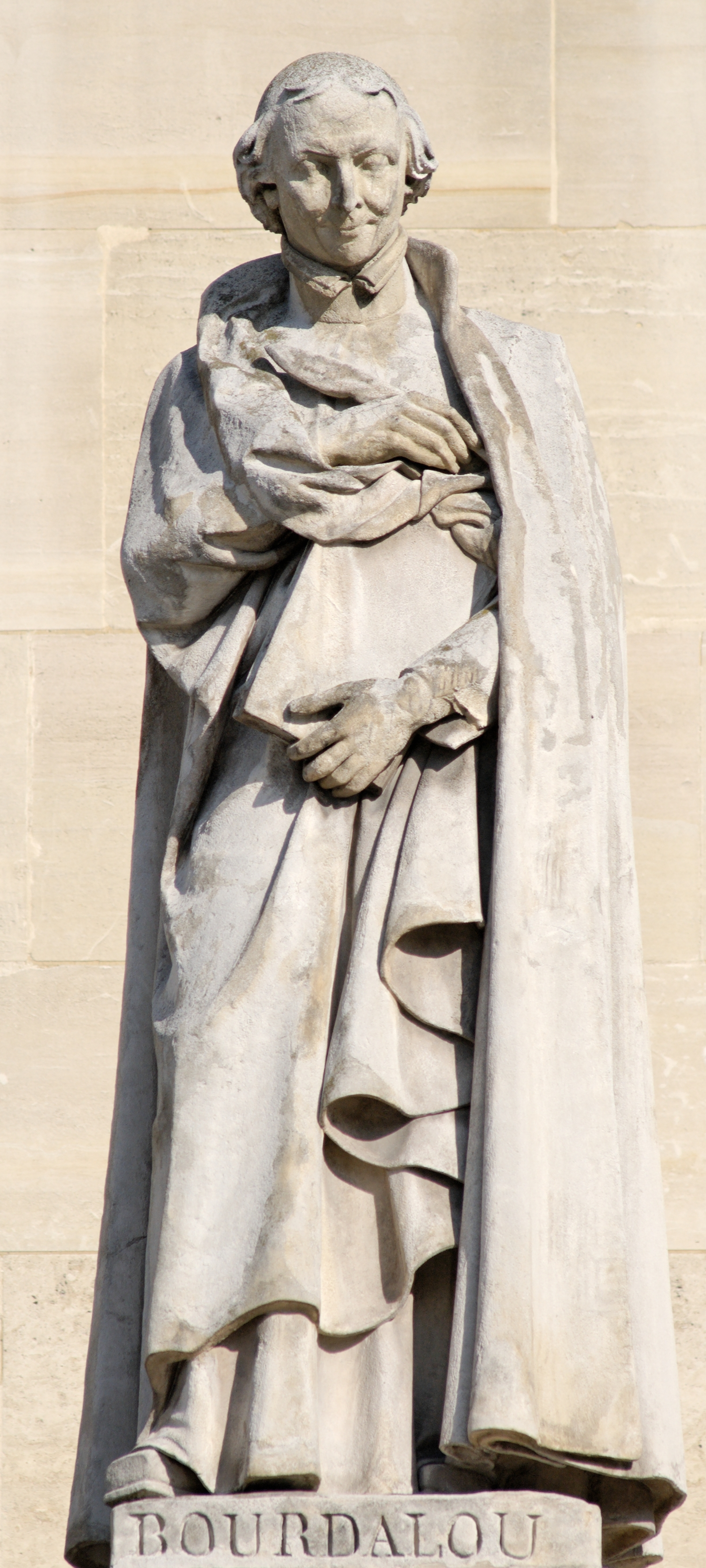 Louis Bourdaloue by Louis Desprez. Stone, before 1853. 7th statue from Pavillon Richelieu to Pavillon Colbert, Cour Napoléon in the Louvre.